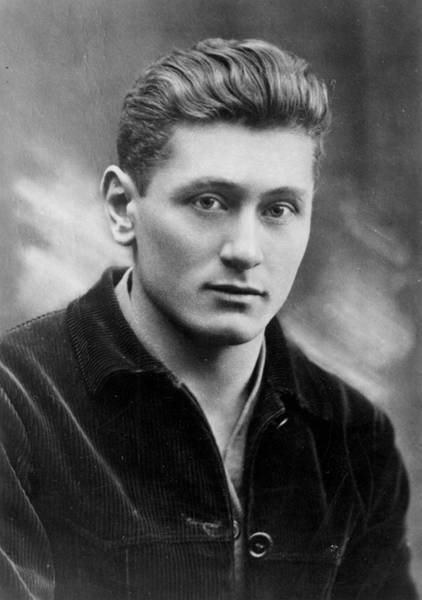 Communist functionary Walter Häbich (1904-1934). Shot by the SS during the Nazi Purge of 1934 in Dachau Concentration Camp.